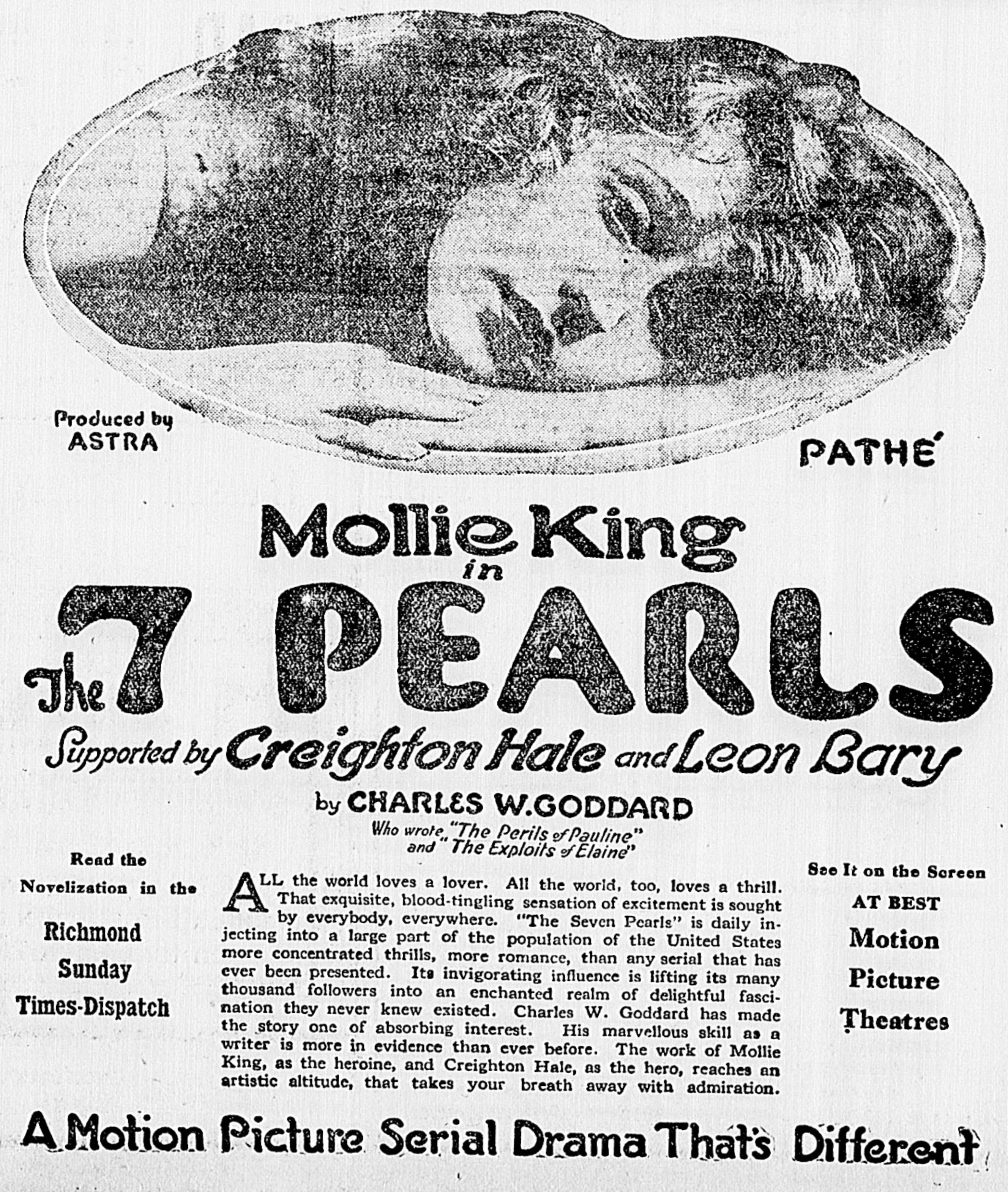 The Seven Pearls is a 1917 American action film serial directed by Louis J. Gasnier and Donald MacKenzie. This is a contemporary advert from a newspaper for the film.